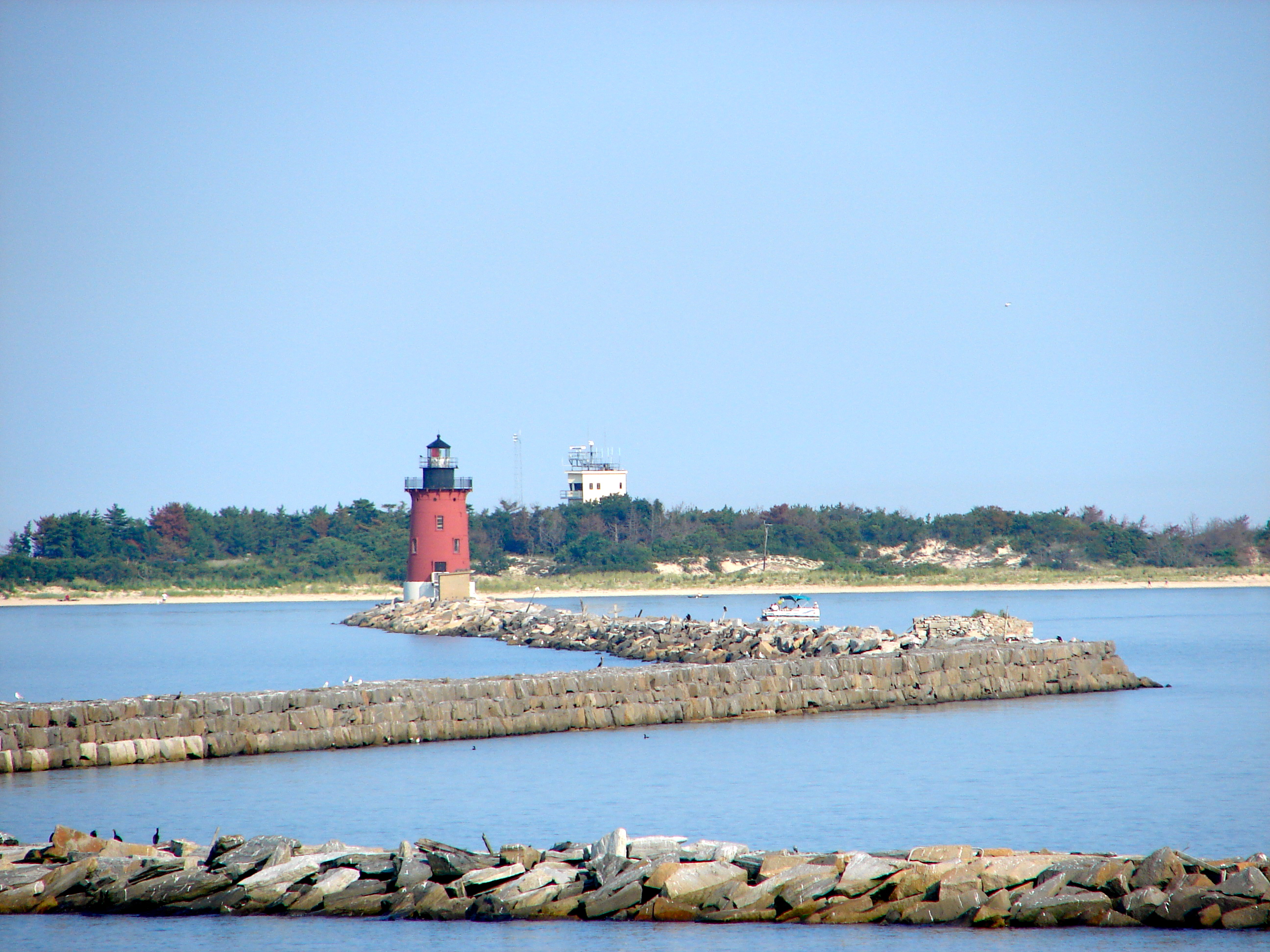 Delaware Breakwater and Lewes Harbor on the NRHP since December 12, 1976. Located east of Lewes at Cape Henlopen, Lewes, Delaware. The Lighthouse shown is the East End Light, but the emphasis is on the breakwaters here which were used to create a safe harbor at the entrance to the Delaware Bay in 1828(?). Much later 1896(?) this was incorporated into the National Harbor of Refuge, a much bigger harbor. The NRHP followed the same pattern and this little piece was first put on the NRHP and then incorporated into a larger piece which was put on the NRHP later. The larger harbor is National Harbor of Refuge and Delaware Breakwater Harbor Historic District on the NRHP since March 27, 1989 Mouth of Delaware Bay at Cape Henlopen 38°47′59″N 75°6′27″W, Lewes